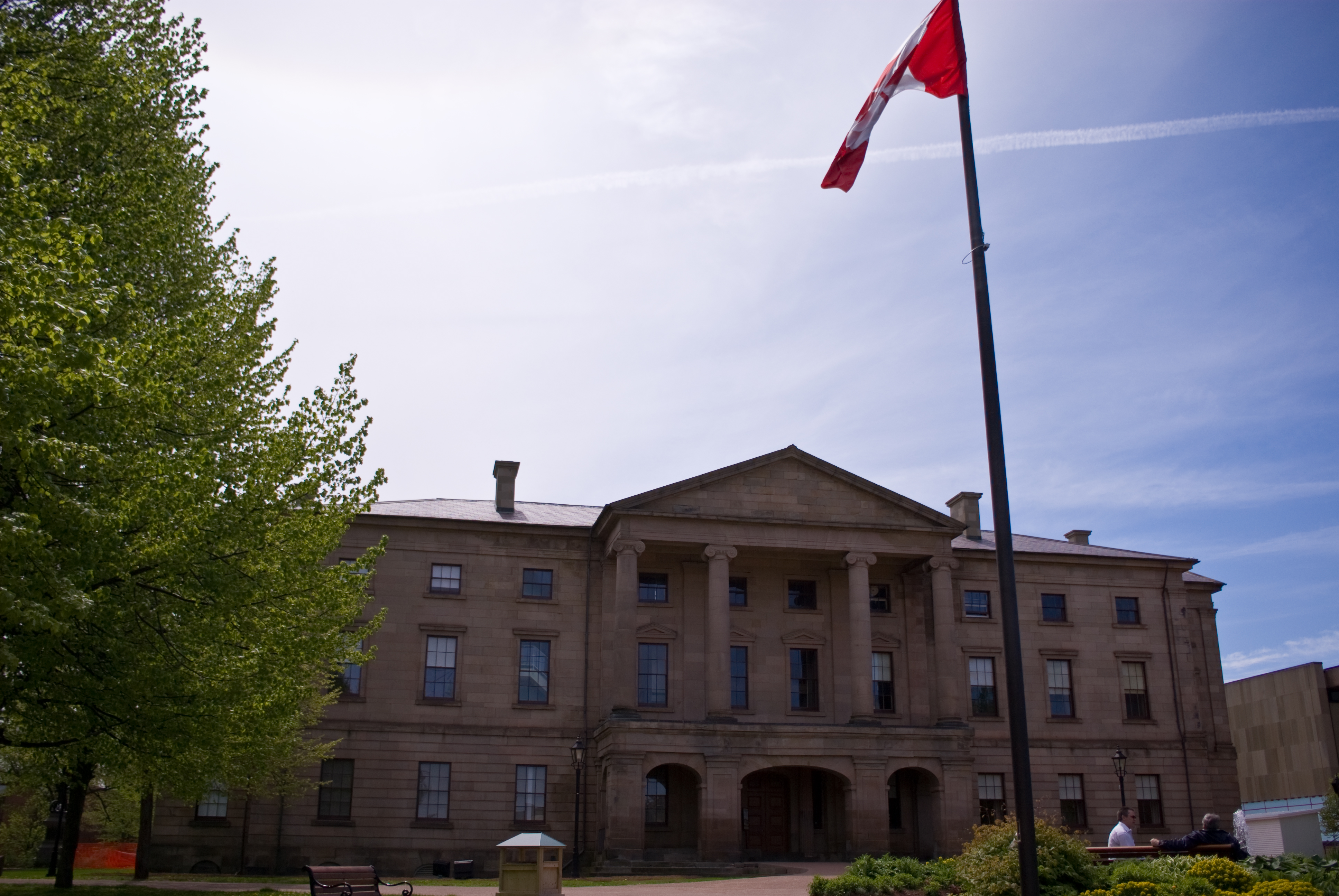 Completed in 1847, Prince Edward Island's Province House is the home of the Island's legislature. In addition, it was the primary site of discussions for the 1864 Charlottetown Conference, when Confederation of the British North American colonies was first seriously considered.